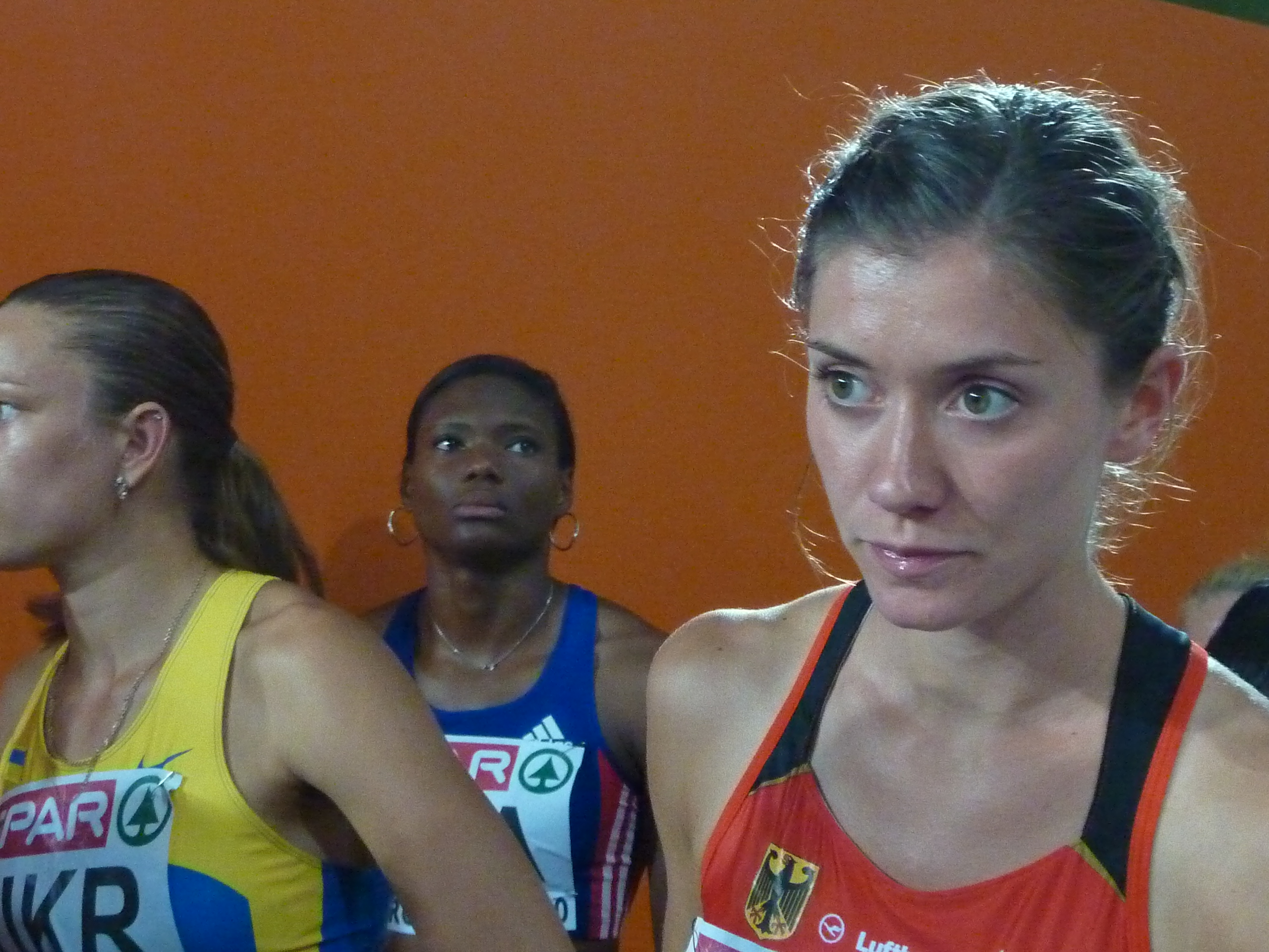 4x400 relay final